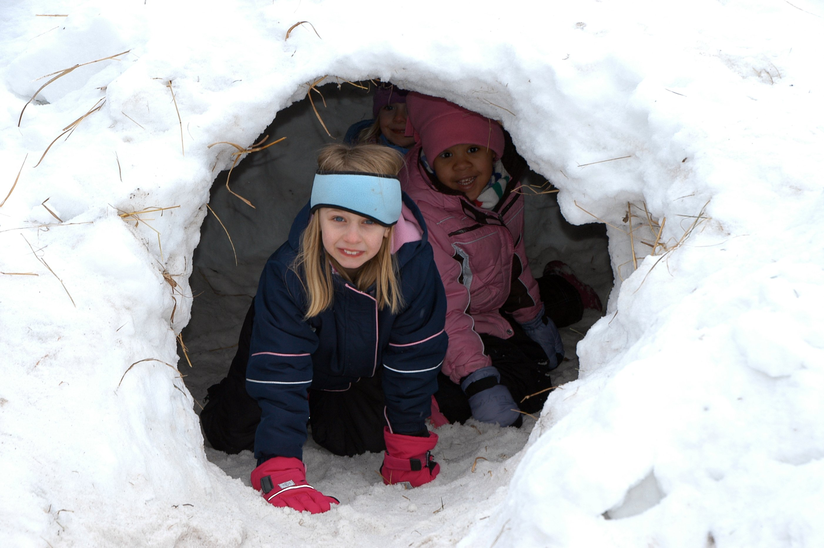 Photo by Tina Shaw/USFWS